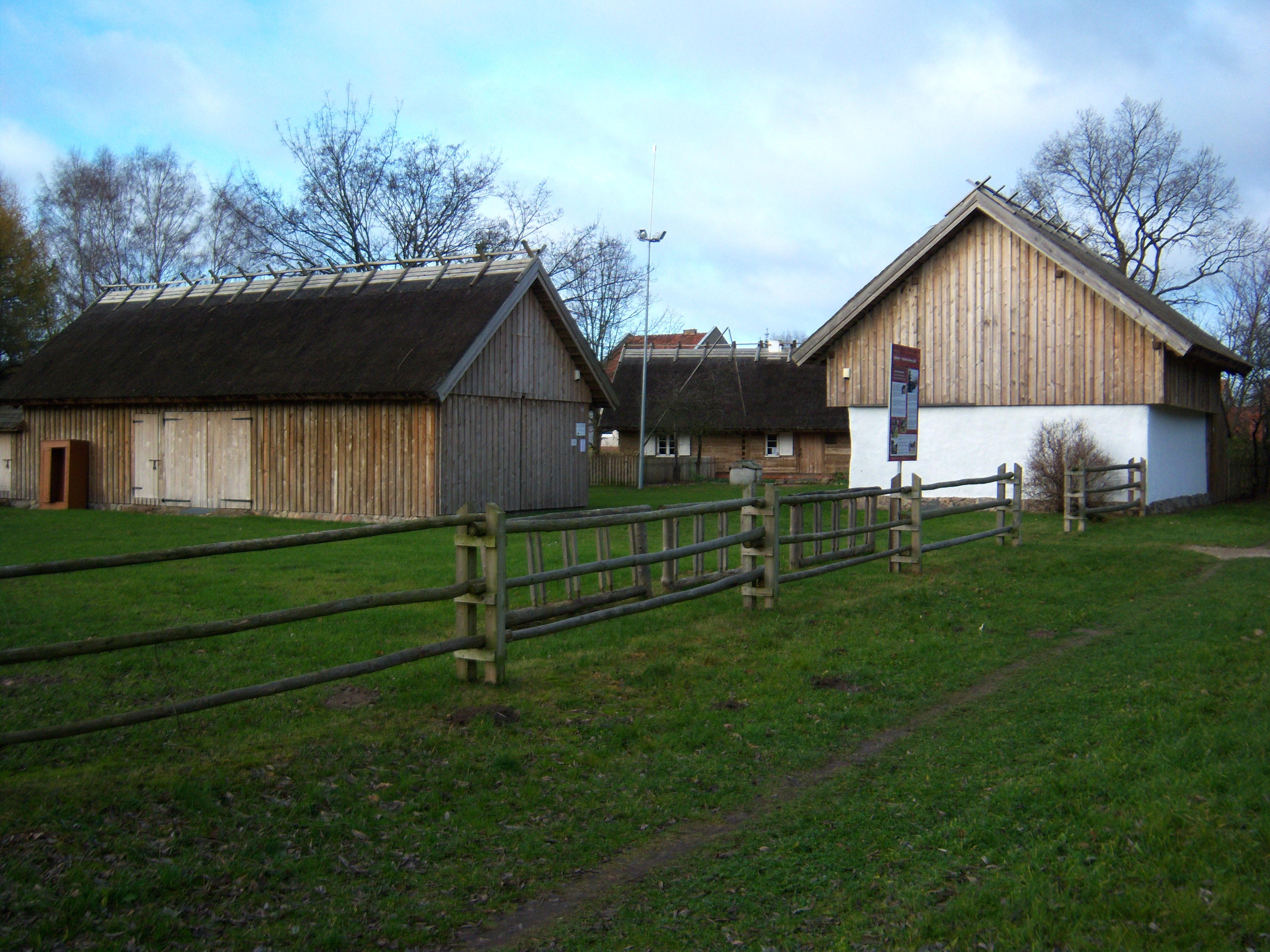 Ethnographic farmstead, Agluonėnai, Klaipėda District, Lithuania